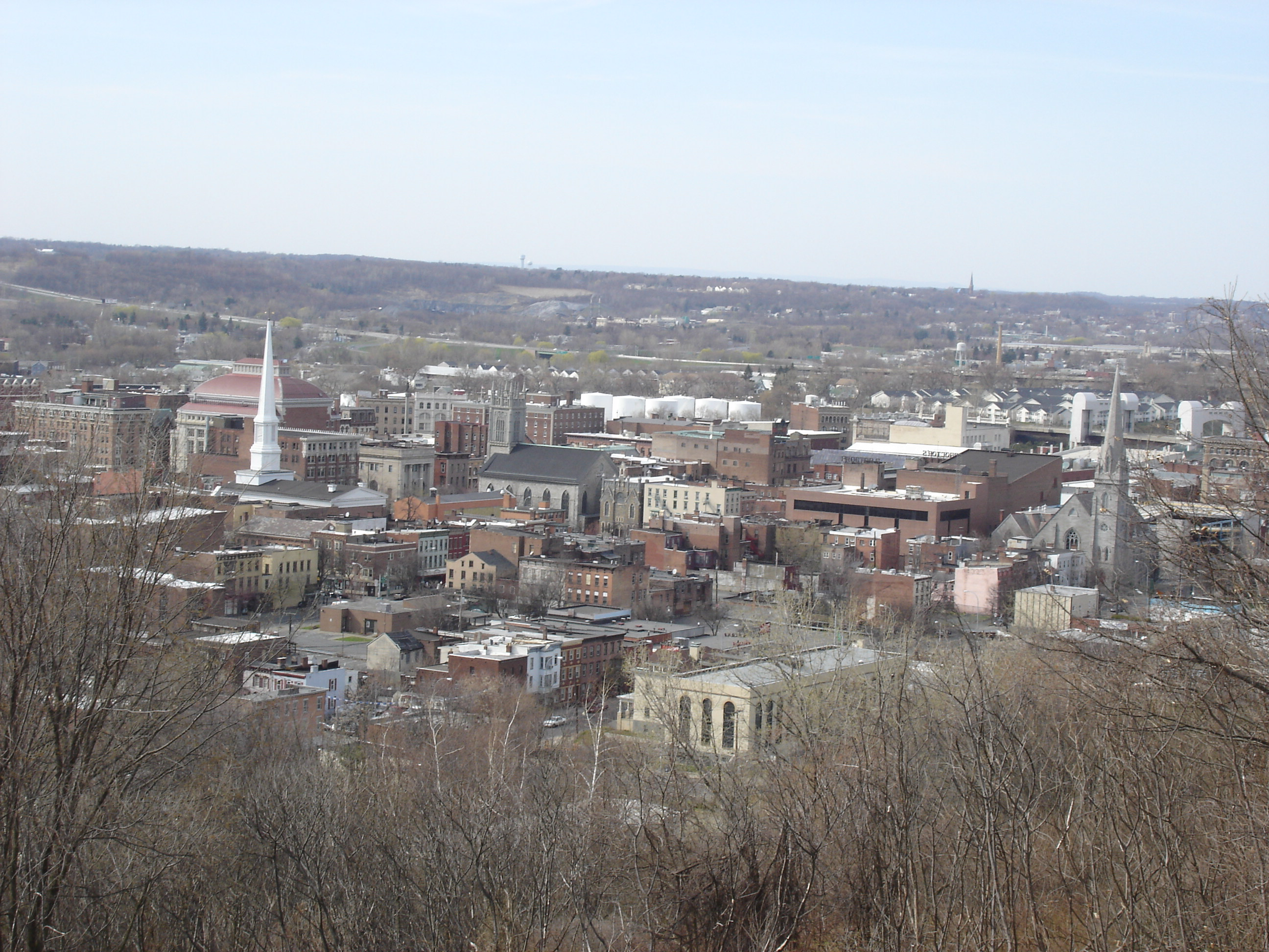 I took this picture myself. Anyone can use it or do whatever they want with it. Photo of downtown Troy from the park